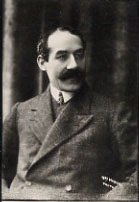 French film director Andre Calmettes